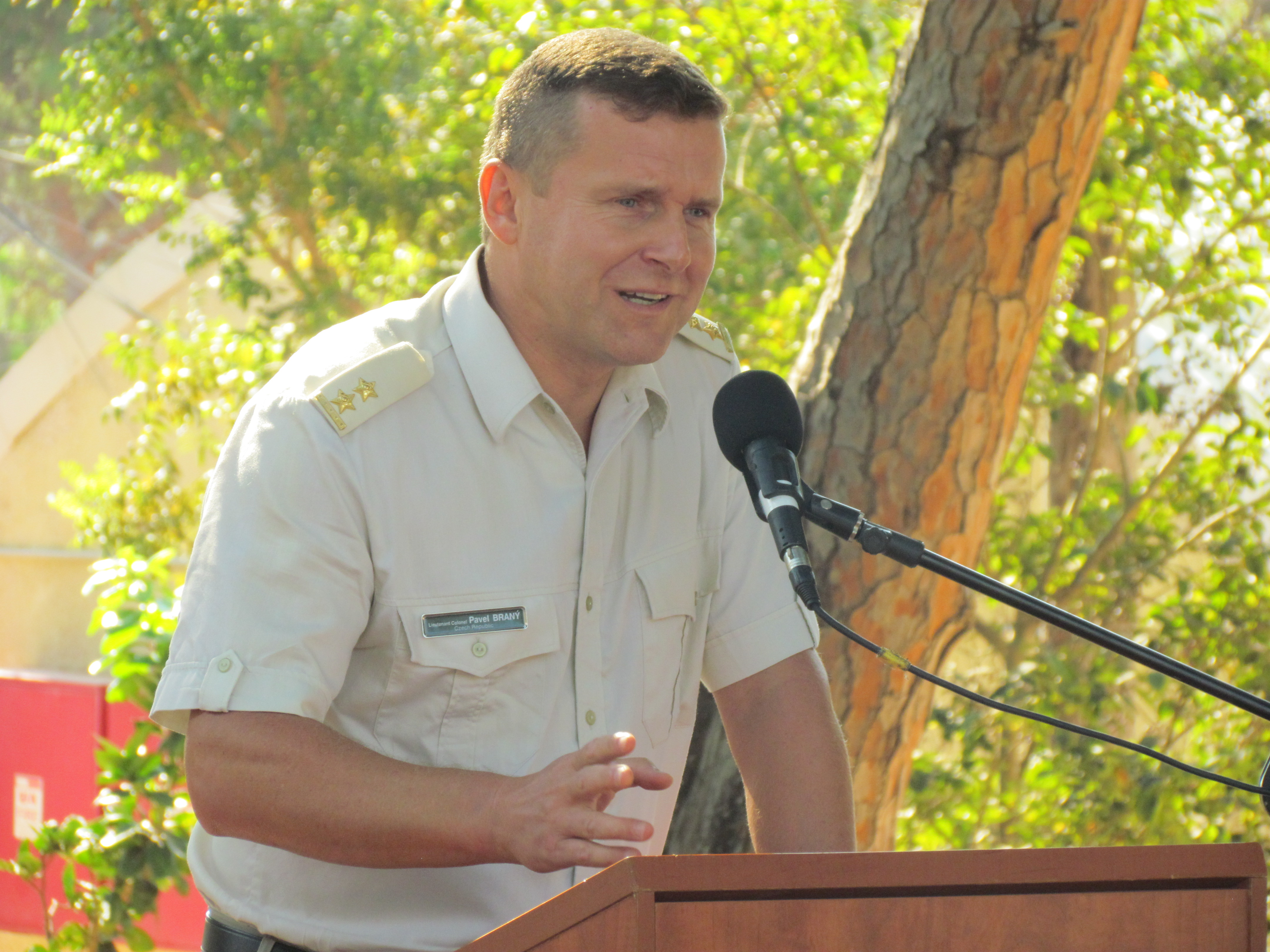 Lt. Col. Pavel Brany in the "Arrow of generations" ceremony in the IDF Junior Command Preparatory Boarding School